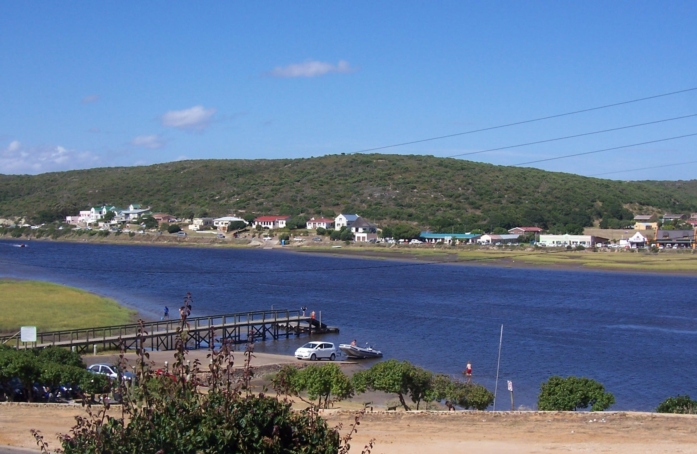 Own work photograph